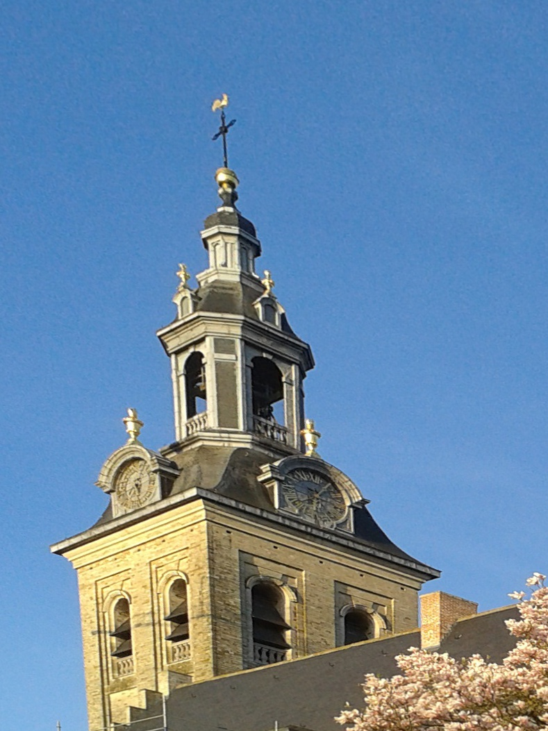 Park Abbey in Heverlee (Leuven)